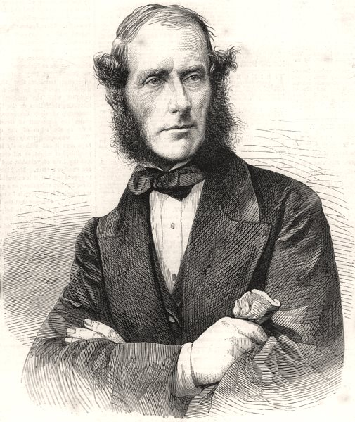 The Hon. Mr. Baron Pigott - The Illustrated London News - 31 October 1863 pg.433